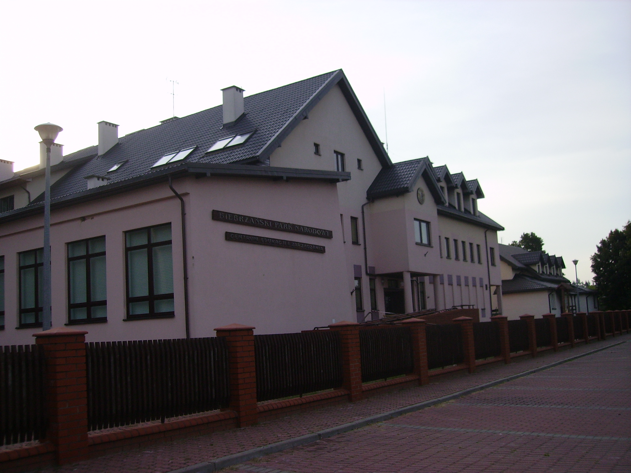 Osowiec-Twierdza 8. Biebrza National Park headquarters